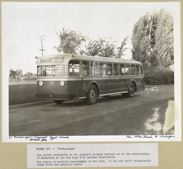 Digital ID: 482424. Model 718 - 41 Passenger - New York City Omnibus Corporation. Source: Photographs of General Motors and Chrysler car and truck models, 1902 - 1938. / G. M. Coach Company 1936. Photographs - Specifications. ( Repository: The New York Public Library. Science, Industry and Business Library. General Collection Division. See more information about and others at Persistent URL: Rights Info: No known copyright restrictions; may be subject to third party rights (for more information